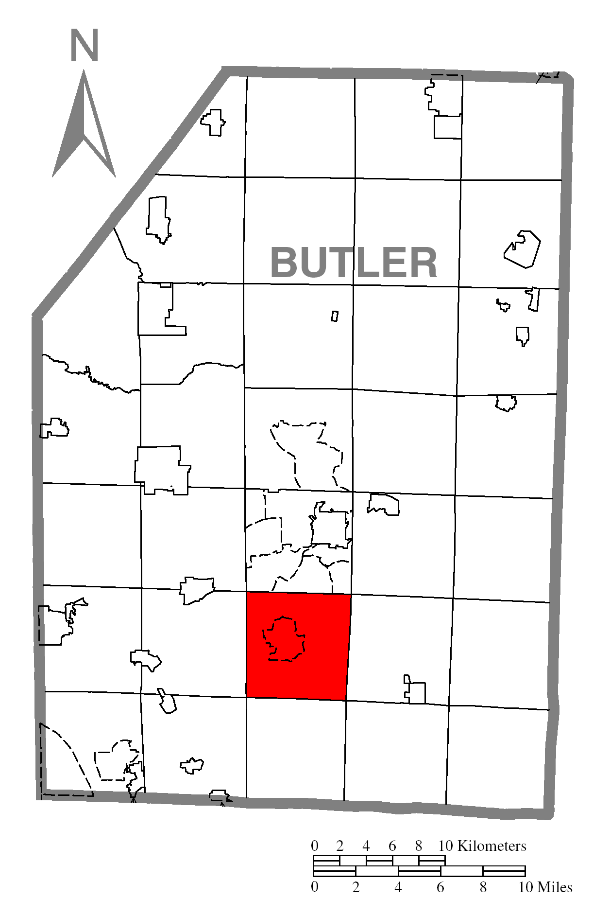 A map of Butler County showing Penn Township, Pennsylvania (alternate) highlighted on the map.